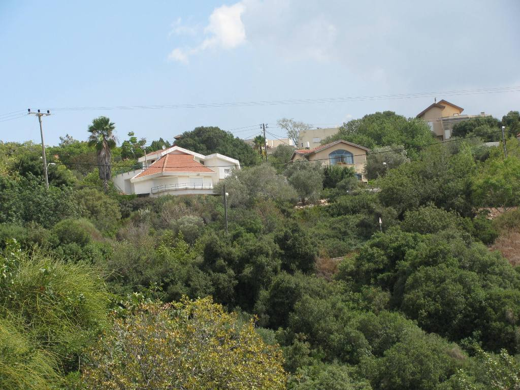 Pastoral community